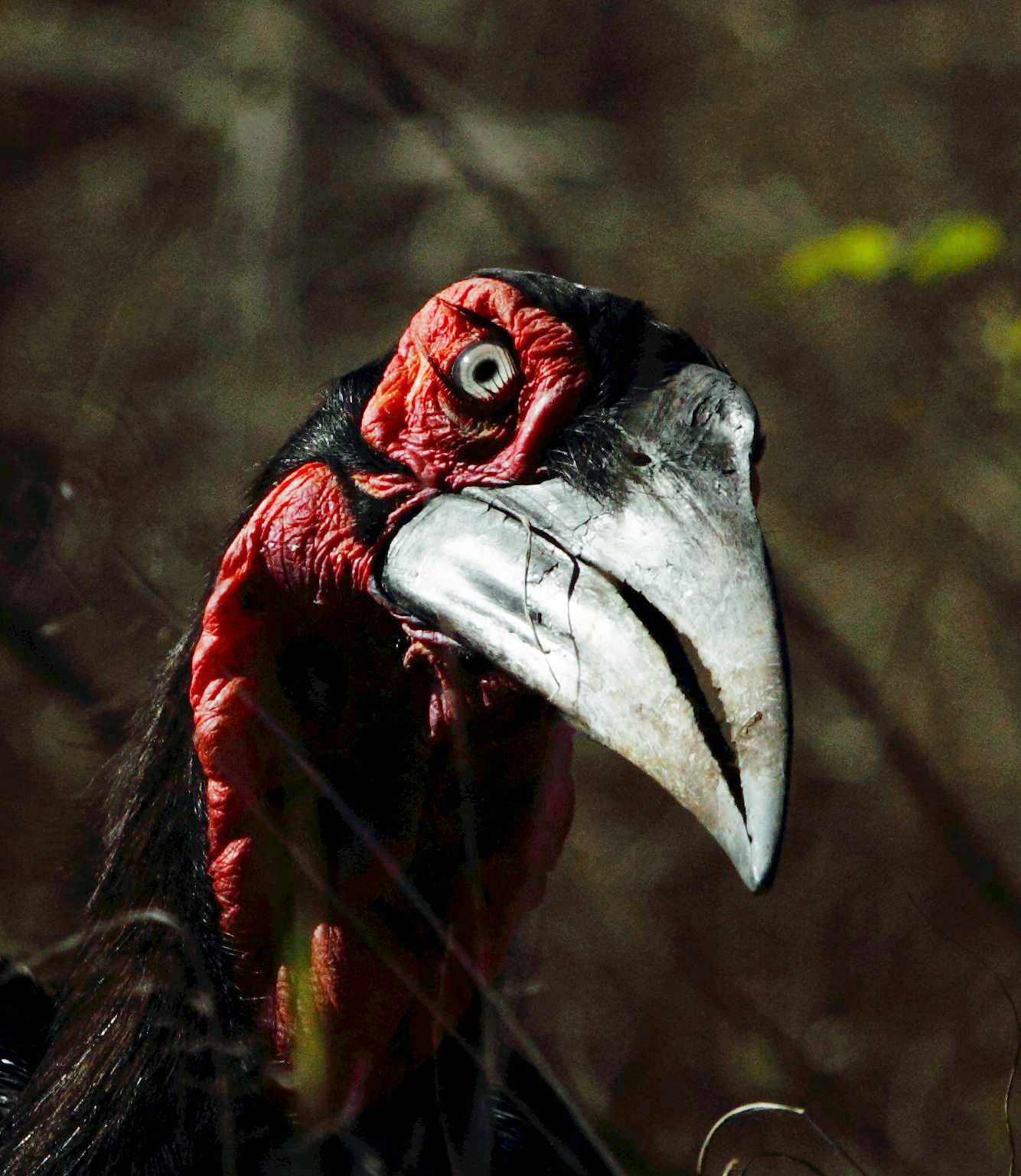 Southern ground hornbill Bucorvus leadbeateri. Kruger National Park, South Africa.